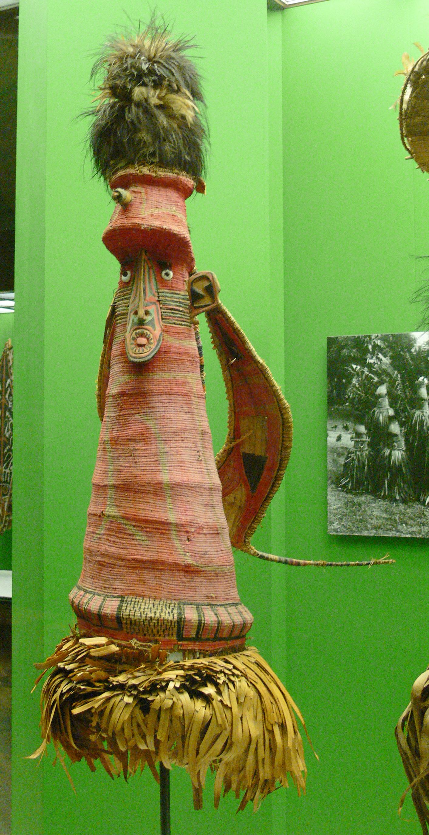 Mask from New Britain, c. 1900. Ethnological Museum, Berlin-Dahlem.